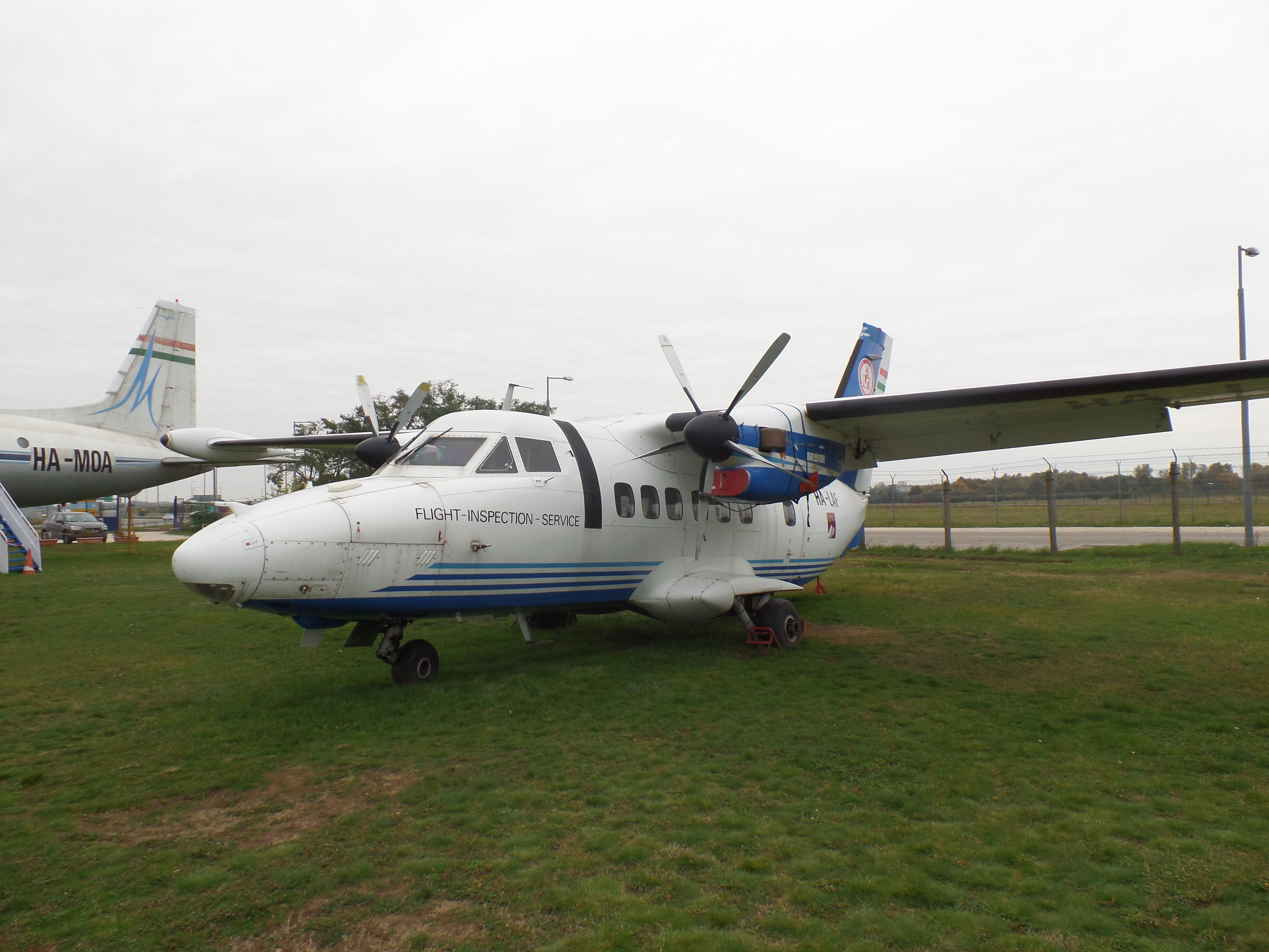 Flight Inspection Service Let L-410UVP-E8A Turbolet HA-LAF at Aeropark Budapest on 20 October, 2016.